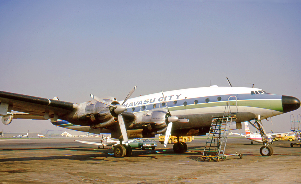 Lockheed L-049 Constellation N90823 of McCulloch Properties weraing Lake Havasu City titles at Long Beach Airport Clifornia in 1971